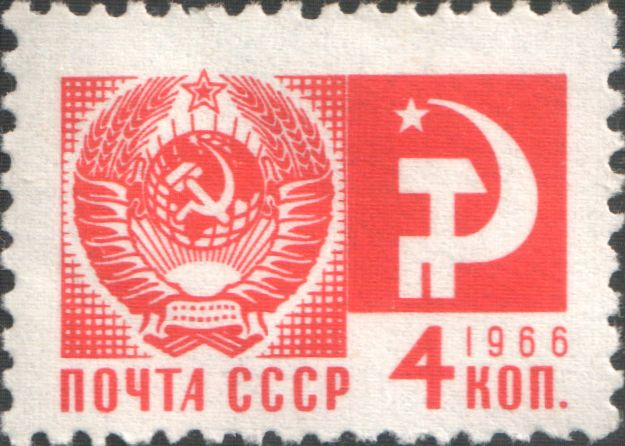 Fluorescent paper.